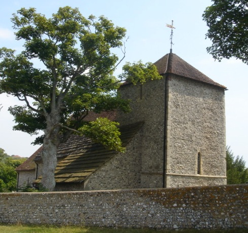 View of St Wulfran's Church, Ovingdean, City of Brighton and Hove, England, from adjacent field.